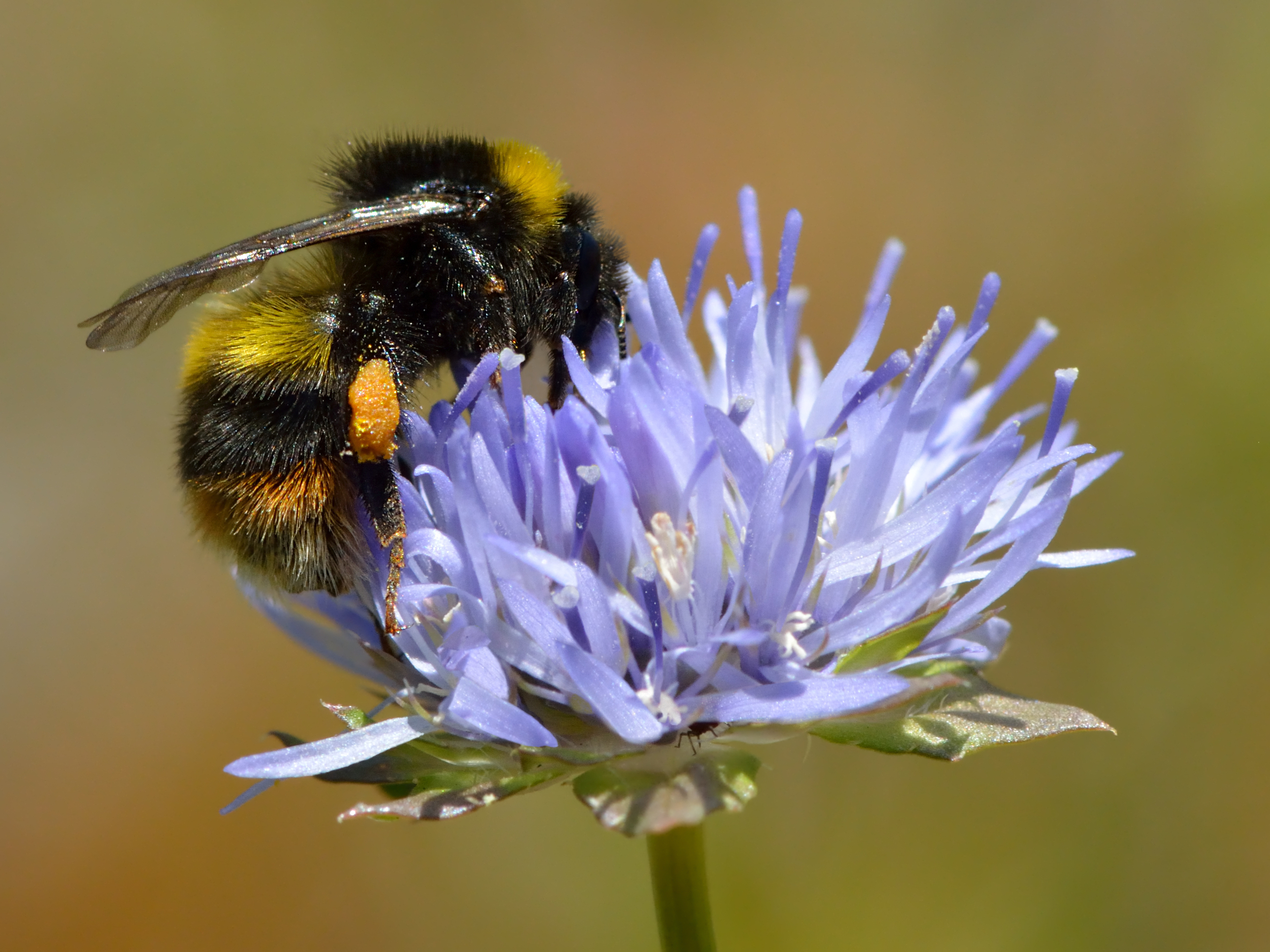 Broken-belted bumblebee (Bombus soroeensis subsp. soroeensis) is foraging on the sheep's bit scabious (Jasione montana). Tallinn, Estonia.